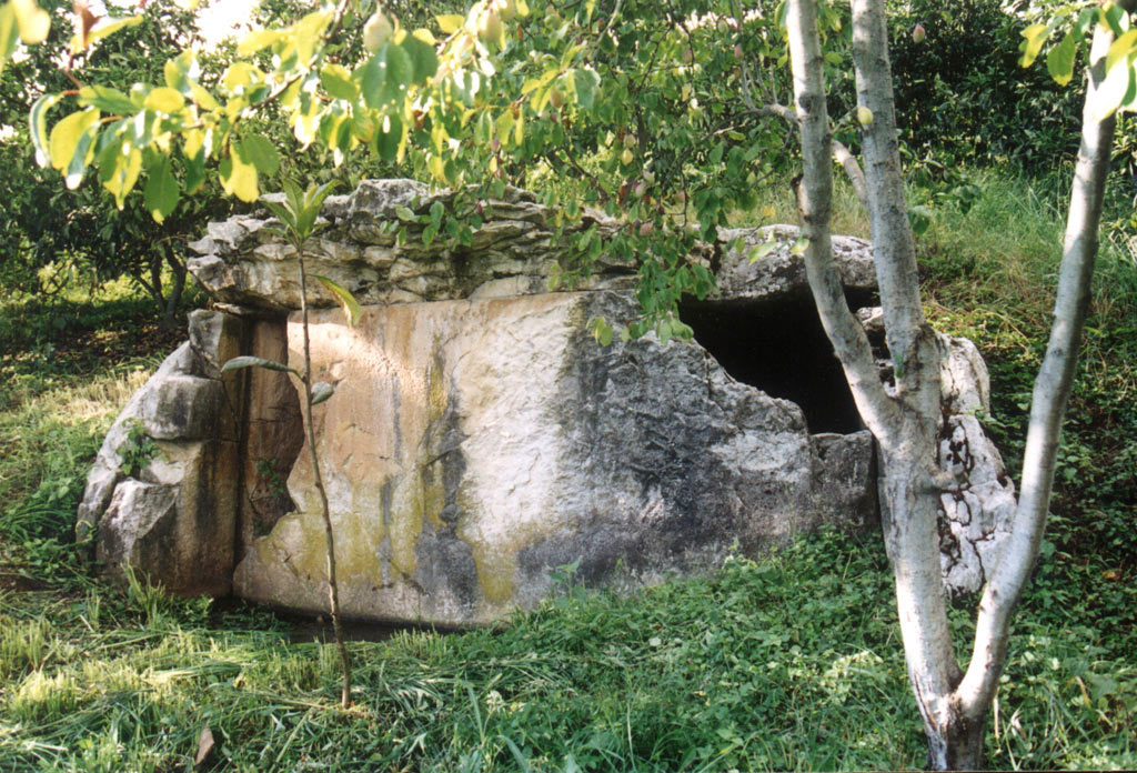 Dolmen located in the Abkhazian village of Verkhnyaya (Upper) Eshera